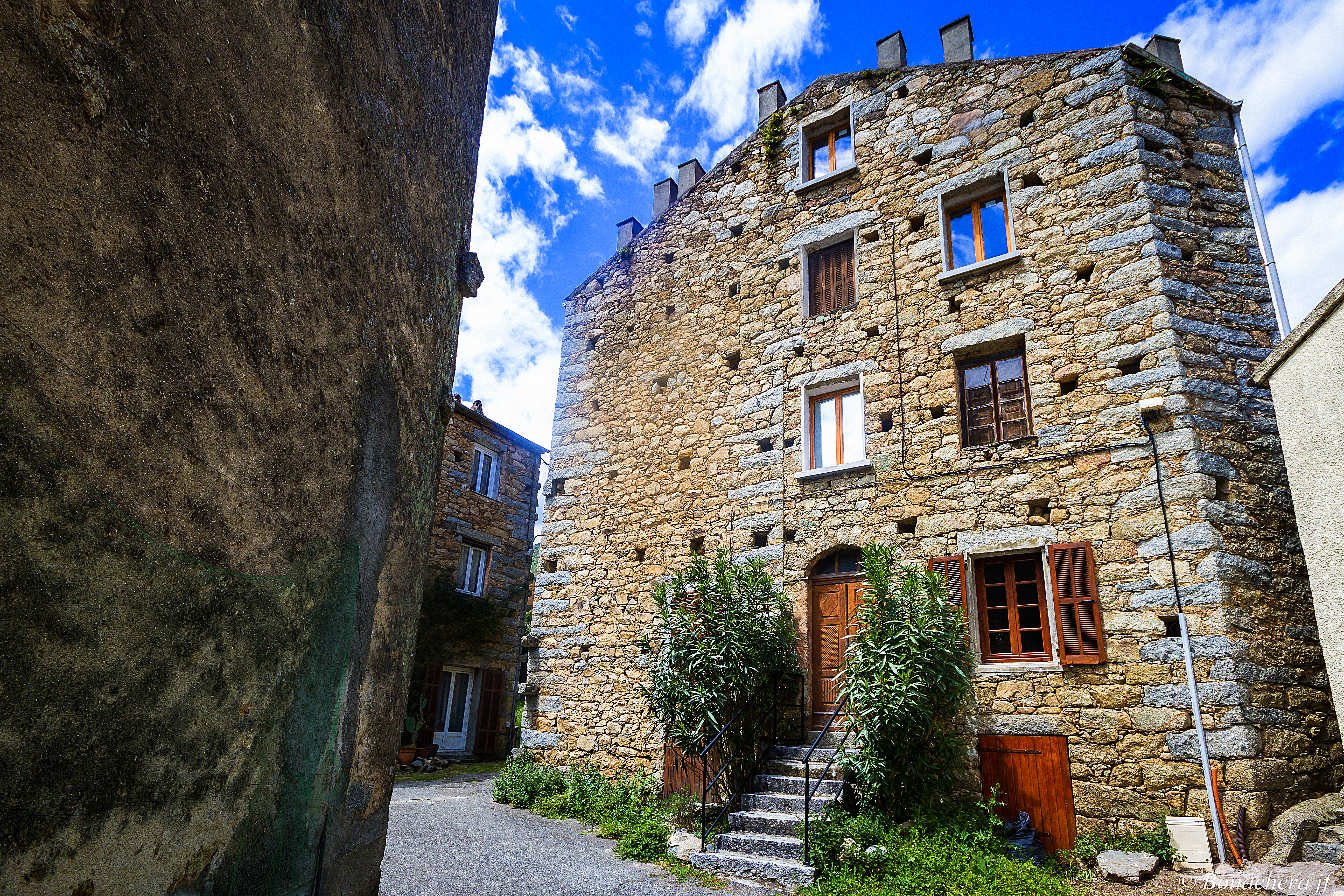 Dans les rues de Pietrapola